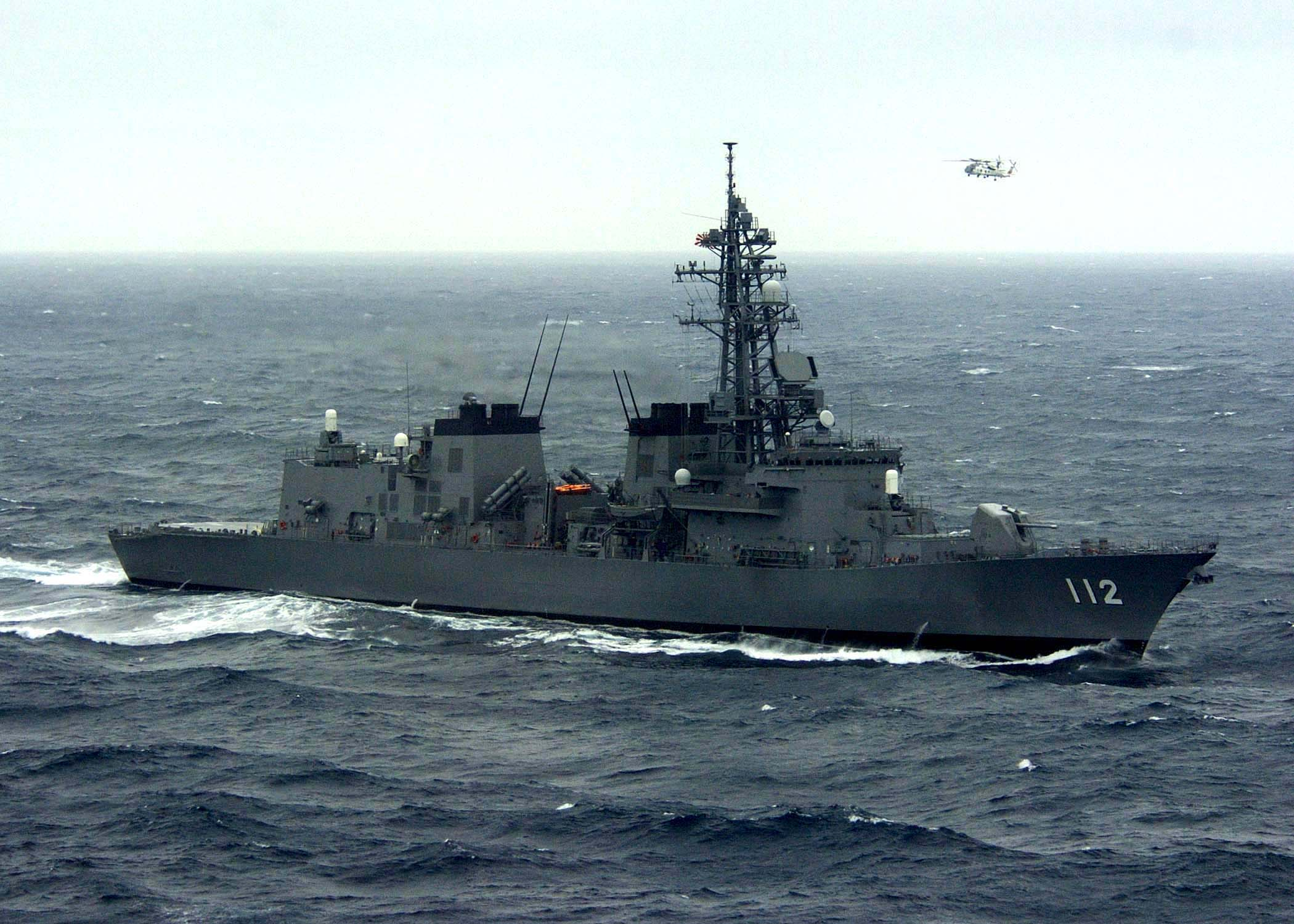 Pacific Ocean (June 9, 2005) - The Japanese Maritime Self Defense (JDS) ship Makinami (DD-112) pulls into formation during a passing exercise between the U.S. and Japanese naval forces. The Nimitz-class aircraft carrier USS Abraham Lincoln (CVN 72) is currently conducting readiness training in support of the Navy's Fleet Response Plan. U.S. Navy photo by Photographer's Mate Airman Justin R. Blake (RELEASED)